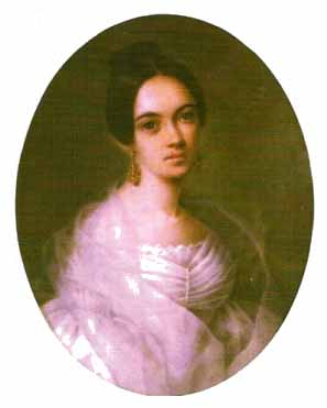 Portrait of Varvara Bakhmeteva (1815-1851)